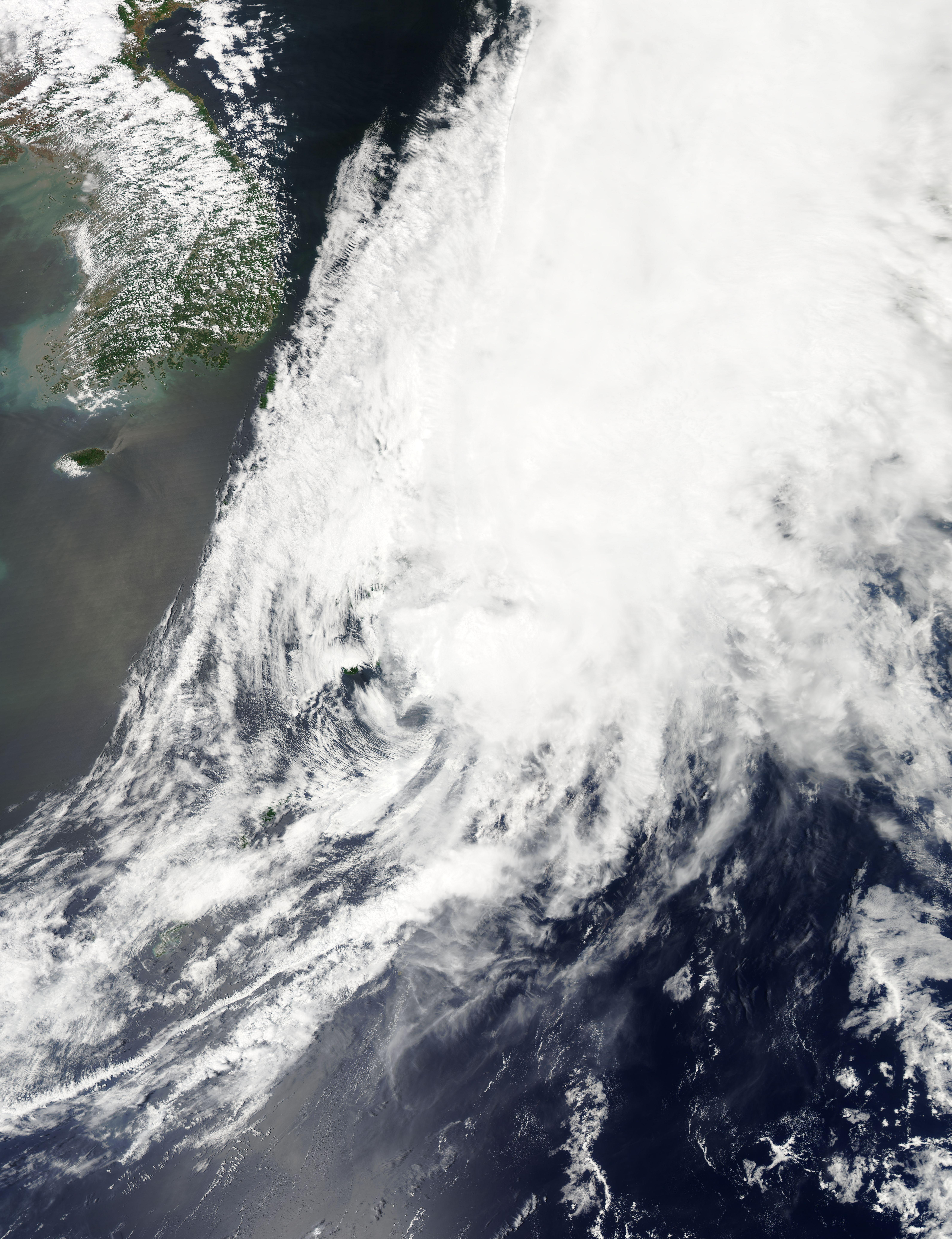 The severe tropical storm Noul over the southwest of Japan on May 12, 2015.